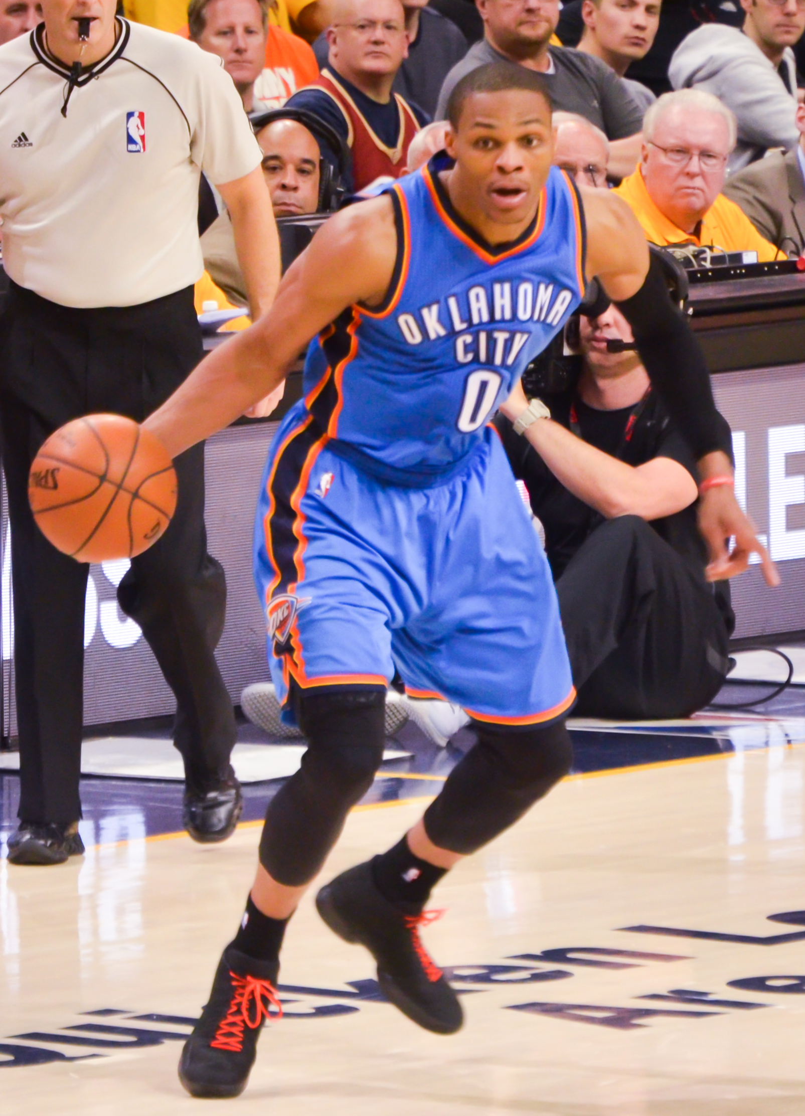 Russell Westbrook of the Oklahoma City Thunder